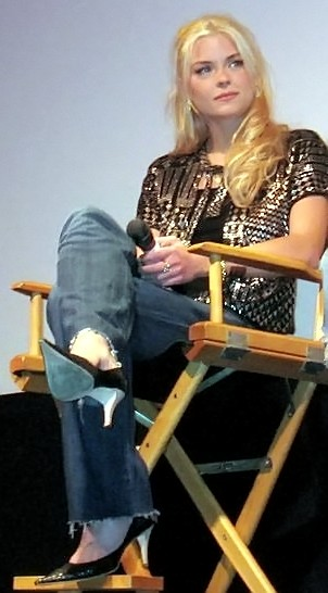 American actress and model Jaime King, at the Austin, Texas premiere of the film Sin City. Originally uploaded with Robert Rodriguez, Jaime King, & Nick Stahl [1], but has been cropped to show only Jaime King depicted person: Jaime King (age: 25.94)